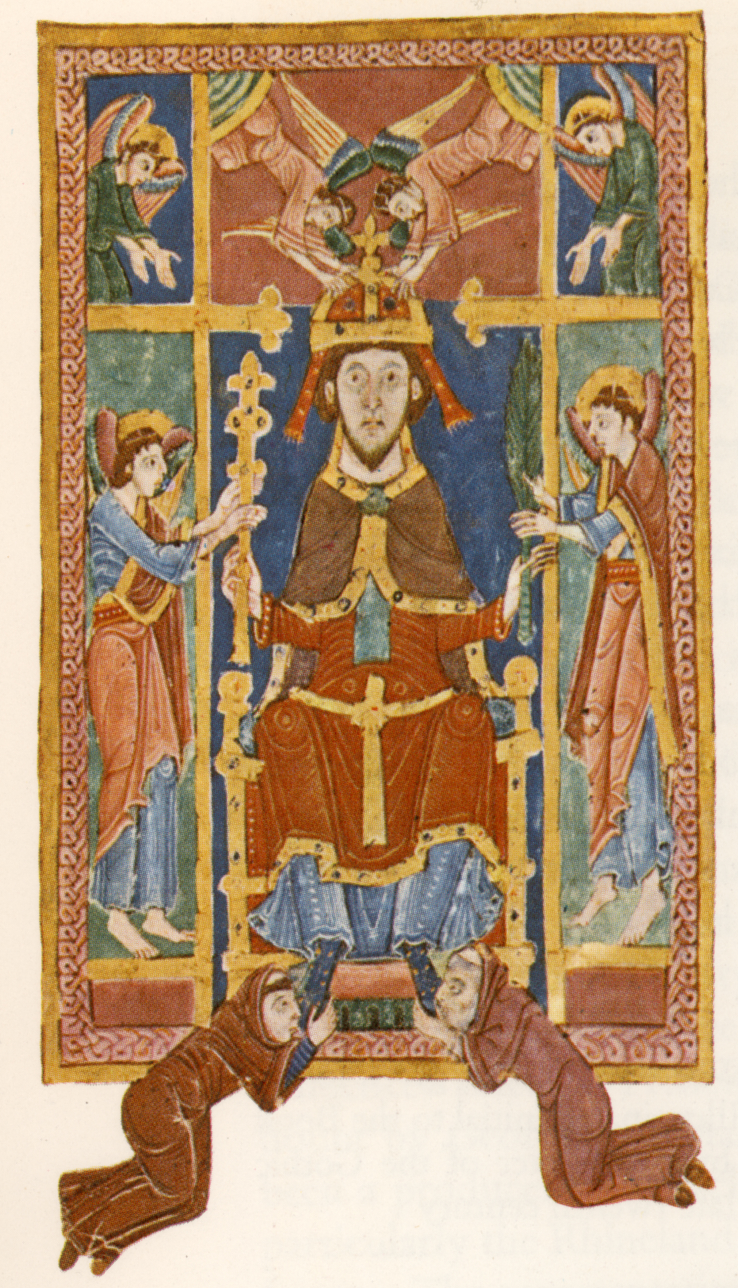 St Edmund the Martyr crowned by angels, from a manuscript of Bury St Edmunds circa 1130